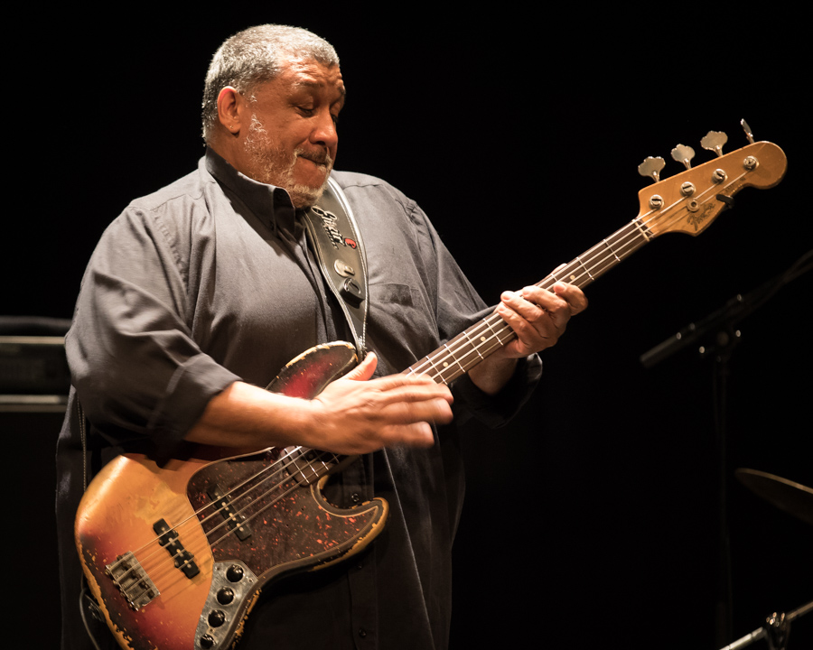 Thierry Fanfant performs with Lura at the stage of Cosmopolite. The concert took place on 22. April 2017 in Oslo. Lura is the artist name of Maria de Lurdes Pina Assunção.Lineup:Lura (vocal)Thierry Fanfant (bass guitar)Antonio Vieira (piano)Tuur Moens (drums)Paulo Bouwman (guitar)Eric Peycelon (sound engineer)